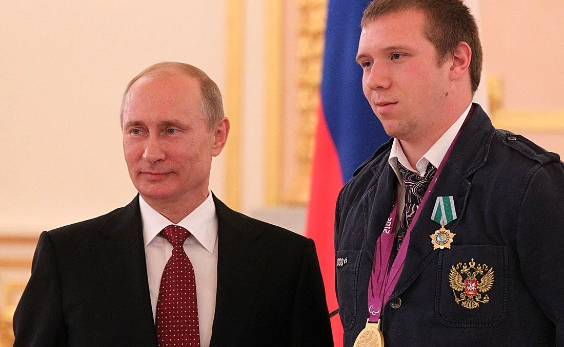 Presenting state decorations to London Paralympic Games champions and medallists. Order of Friendship presented to XIV Paralympic Games champion Nikita Prokhorov